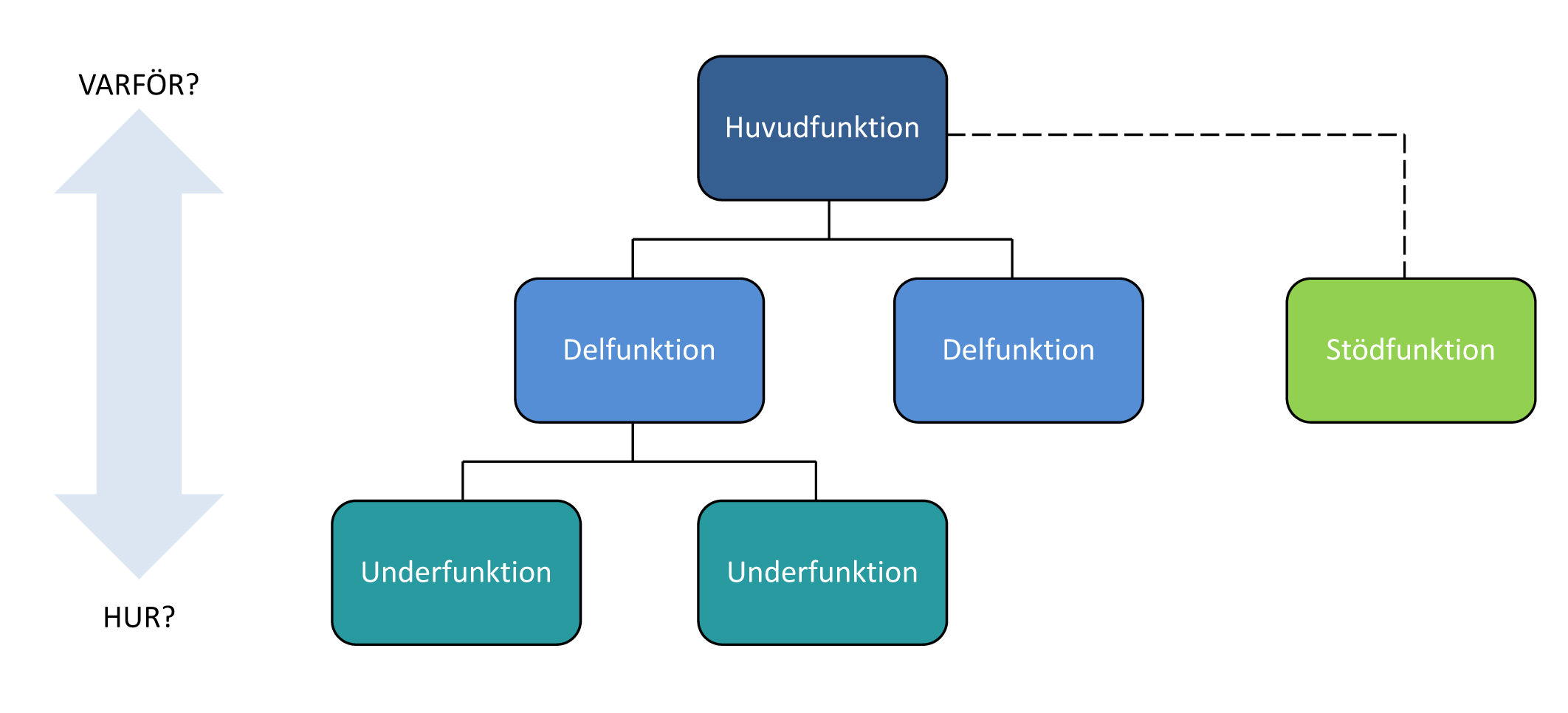 Functional analysis, primary function, sub function